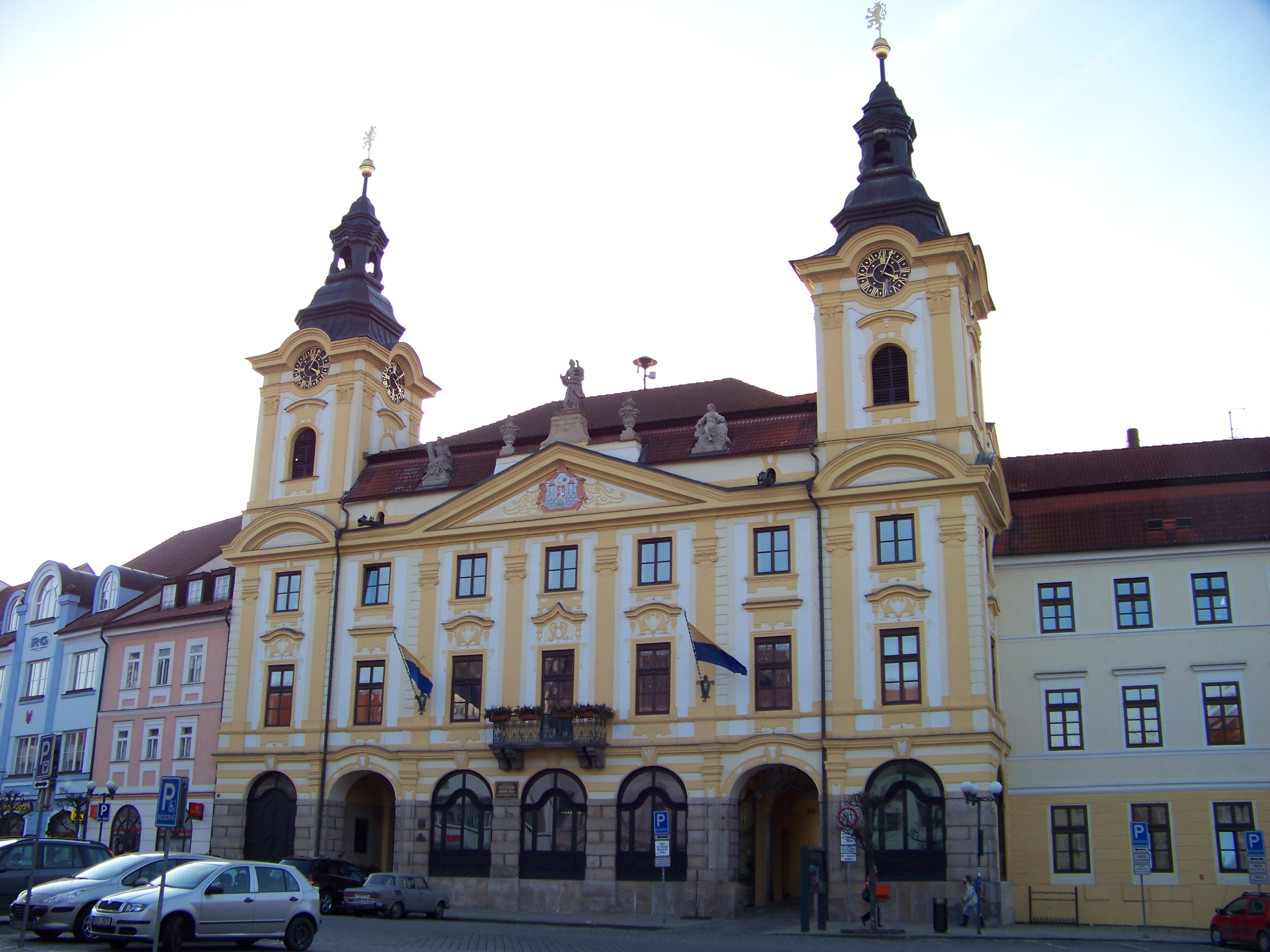 Písek-Vnitřní Město, Písek District, South Bohemian Region, the Czech Republic. Velké náměstí, a town hall. - OpenStreetMap(Info)